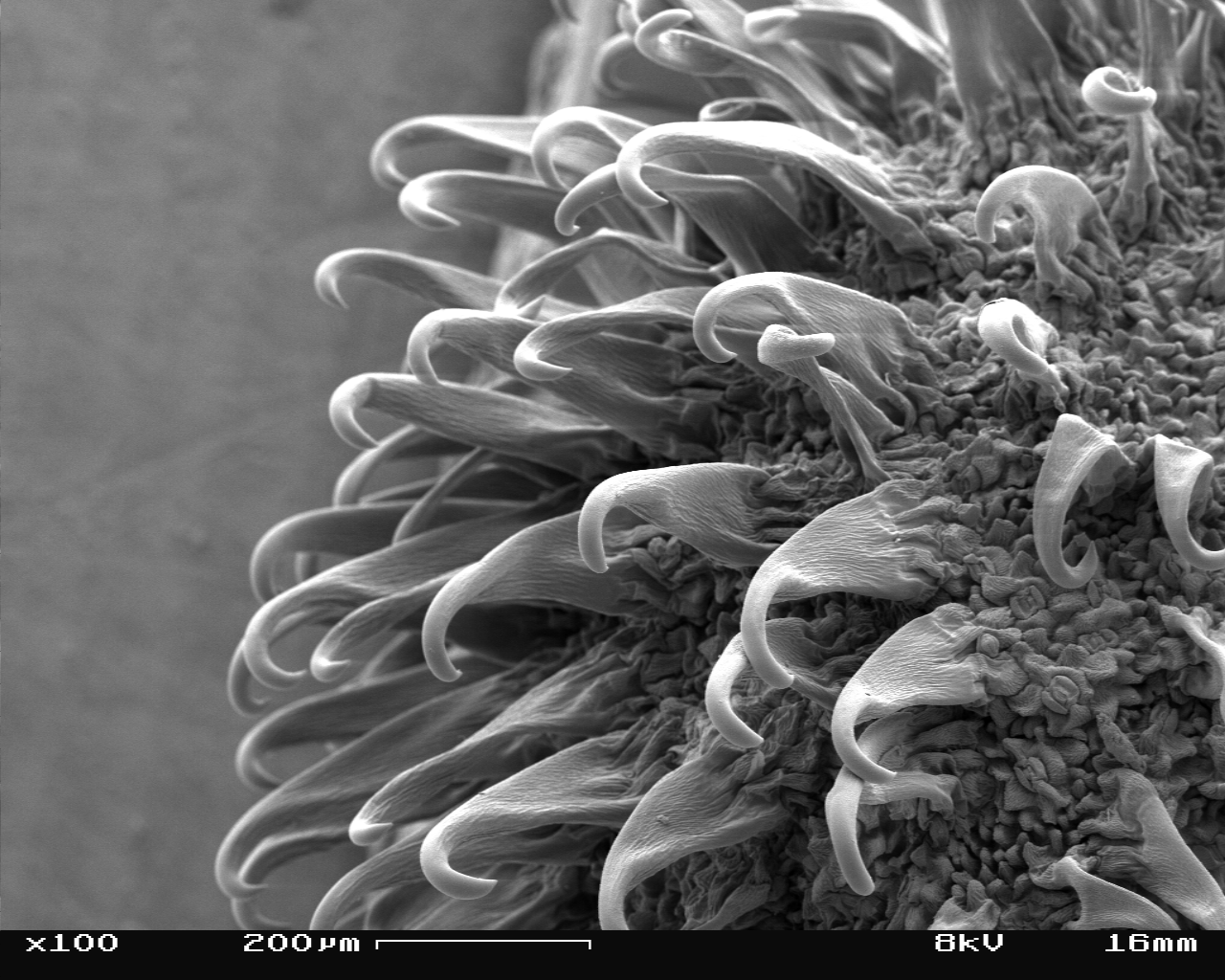 Burdock in Scanning Electron Microscope, magnification 100x